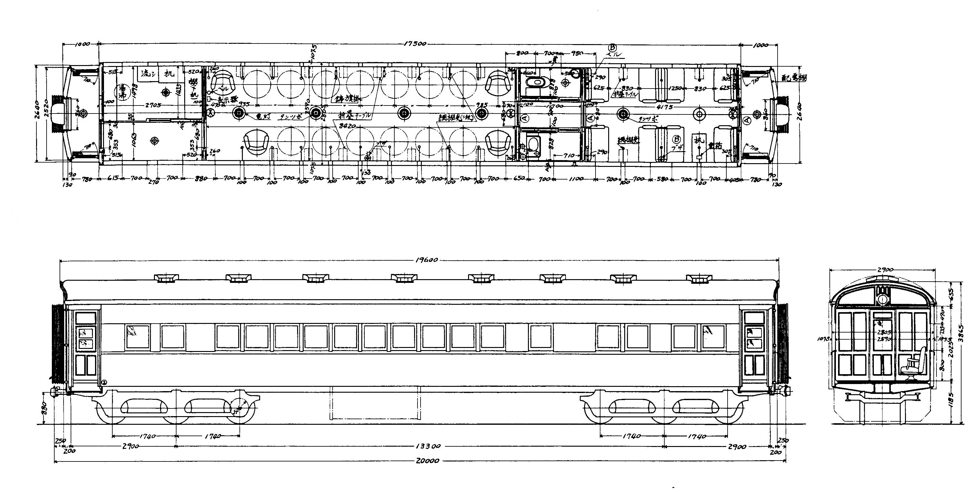 Type drawing of JGR's royal passenger car No.344